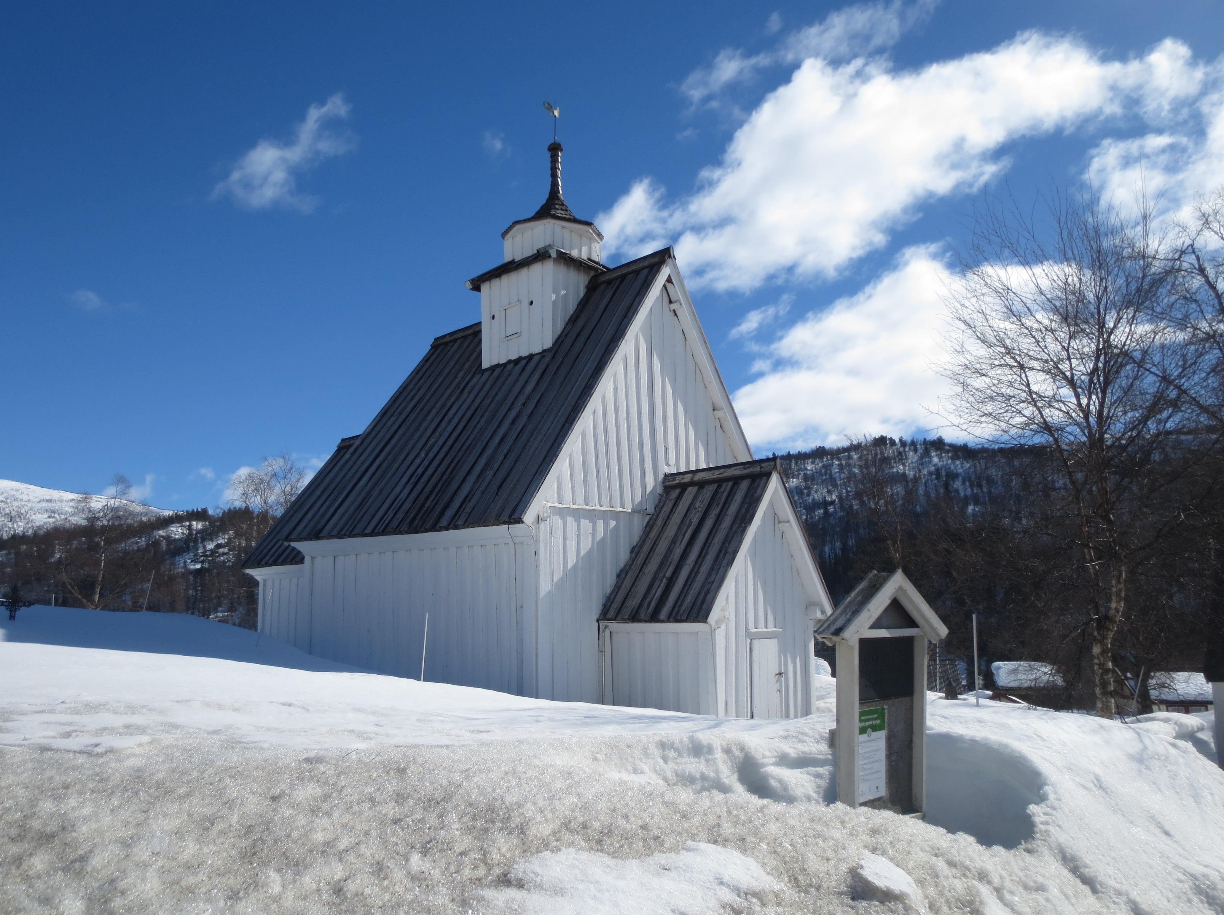 The old Bykle Church (Bykle gamle kirke), in Bykle municipality, Aust-Agder county, Norway.